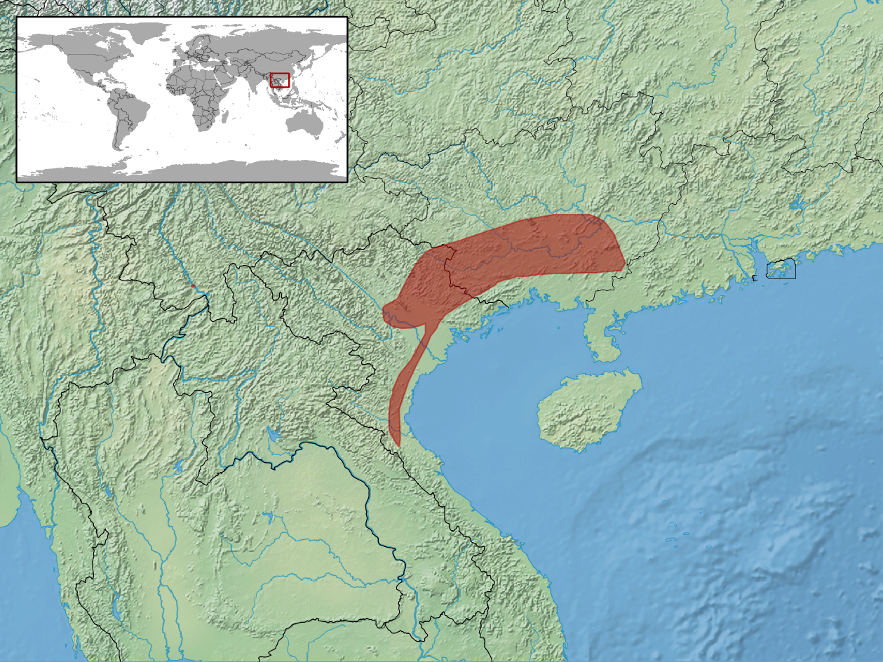 geographic distribution of Pseudocalotes brevipes (Native: China (Guangxi); Viet Nam)